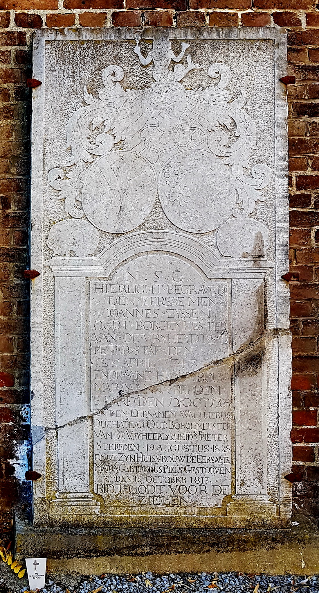 Two gravestones at the cemetery of Sint-Pieter Boven (St. Peter-on-the-Hill) in Maastricht, the Netherlands. The stone on the right marked the grave of two former mayors of Sint Pieter, and their wives.